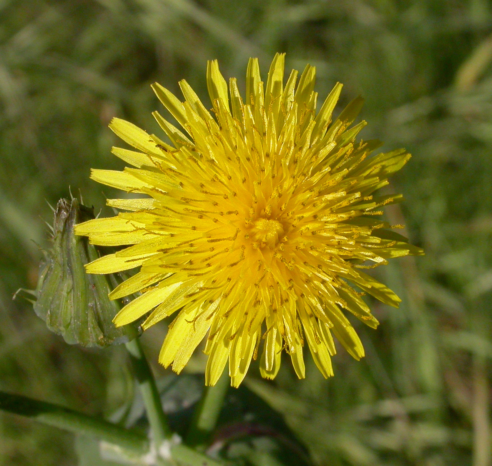 Sonchus oleraceus Photographed in Voorhis Ecological Reserve near Pomona, CA, USA. Species is an introduced weed.